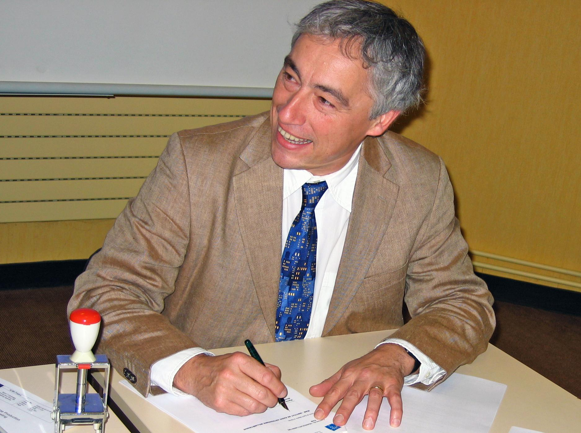 Dr Pierre Cox signing the contract for the ALMA Band 7 receivers. The ALMA Board announced on 14 November 2012 that Dr Cox has been appointed as the next Director of ALMA, the Atacama Large Millimeter/submillimeter Array. He will take up duty on 1 April 2013, for a period of five years. Credit: P. Cox